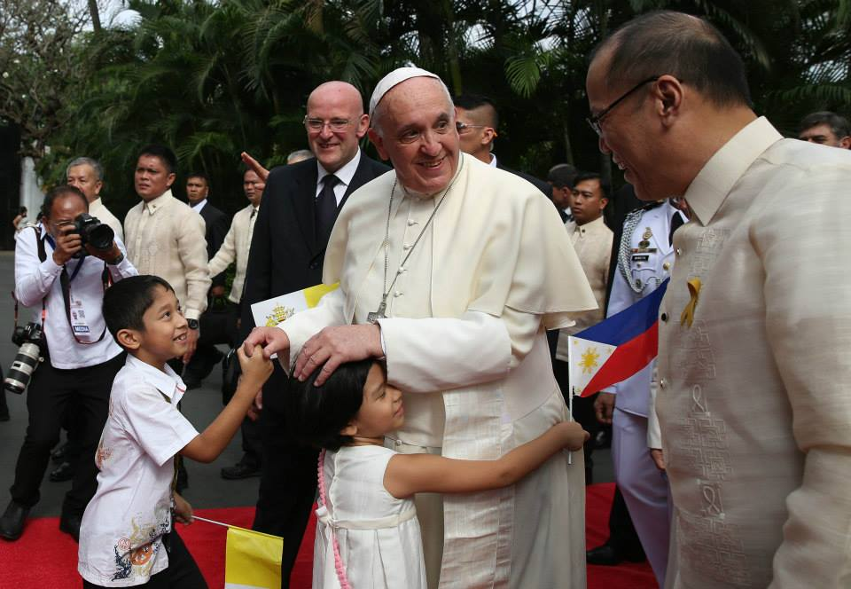 His Holiness Pope Francis, accompanied by President Benigno S. Aquino III, hugs children at the garden area of the Malacañan Palace during the welcome ceremony for the State Visit and Apostolic Journey to the Republic of the Philippines on Friday (January 16, 2015)